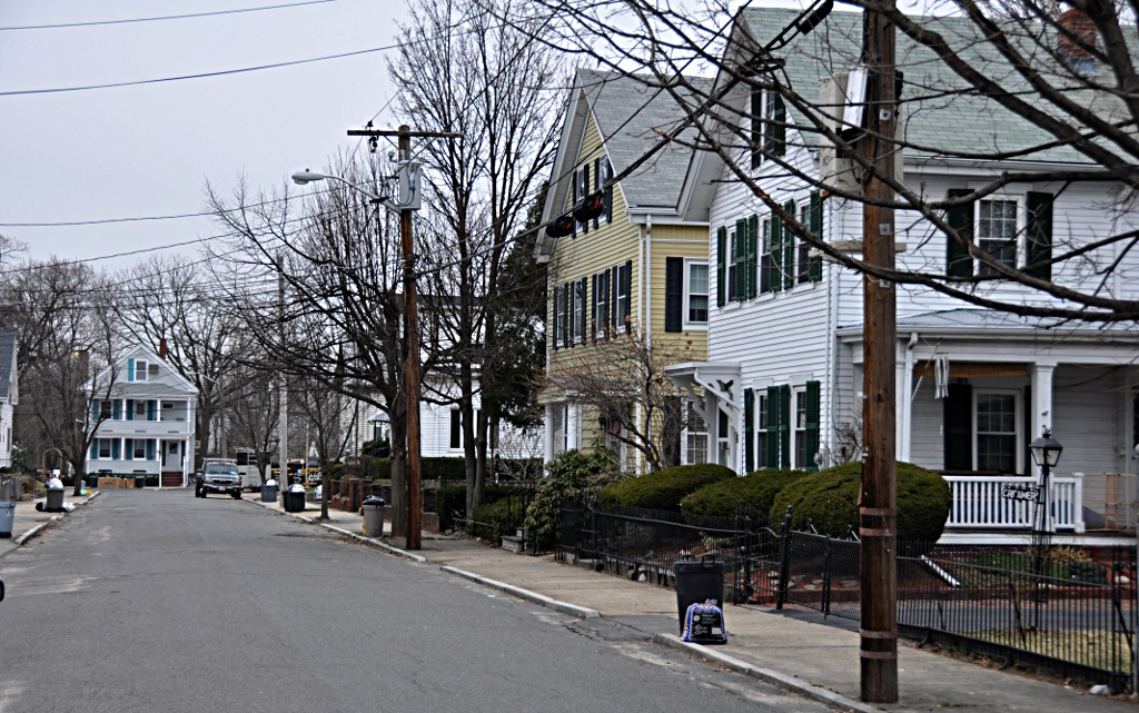 A photograph of Pleasant Street, Medford, Massachusetts, part of the Old Ship Street Historic District.